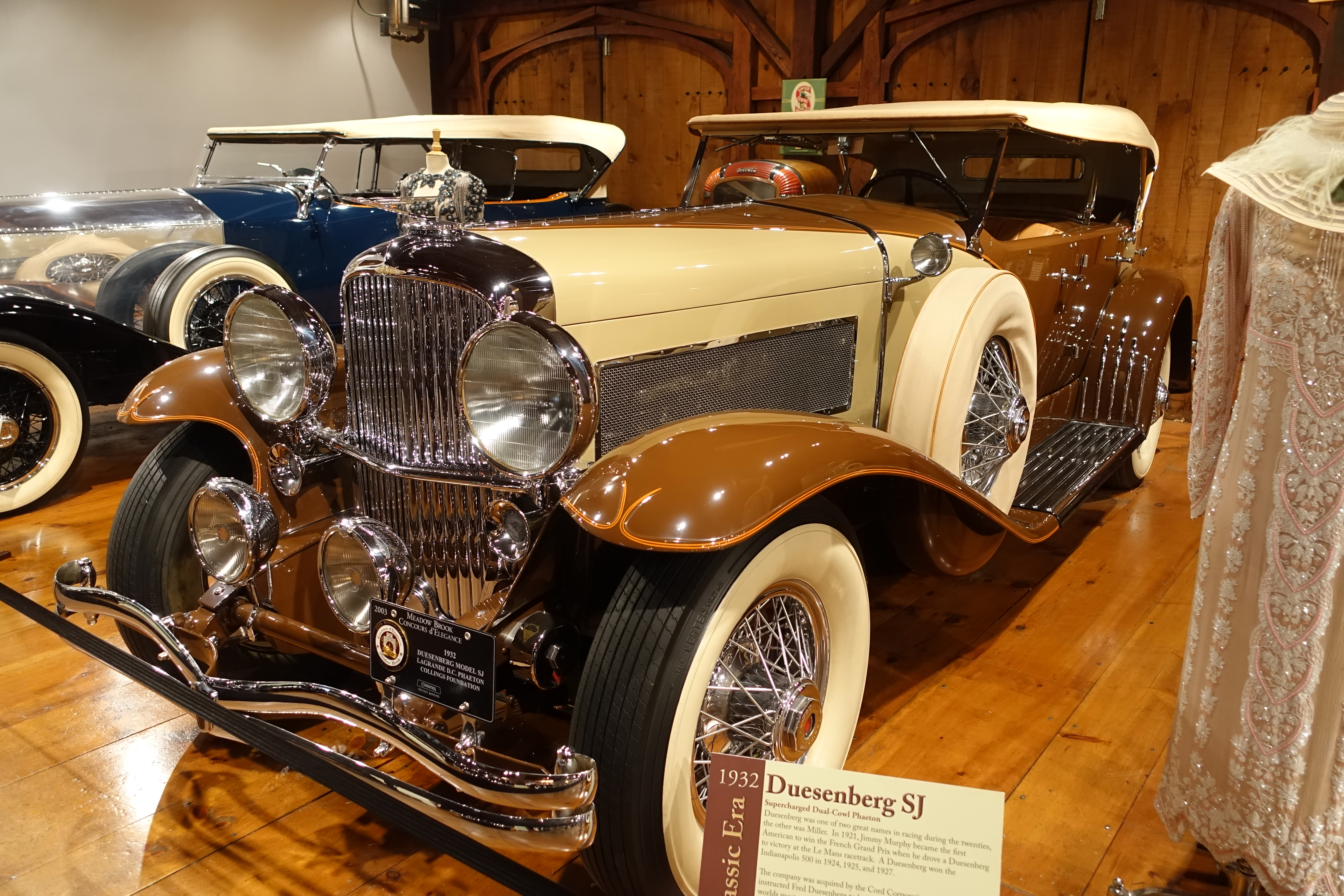 Exhibit in the Collings Foundation - Stow / Hudson, Massachusetts, USA.